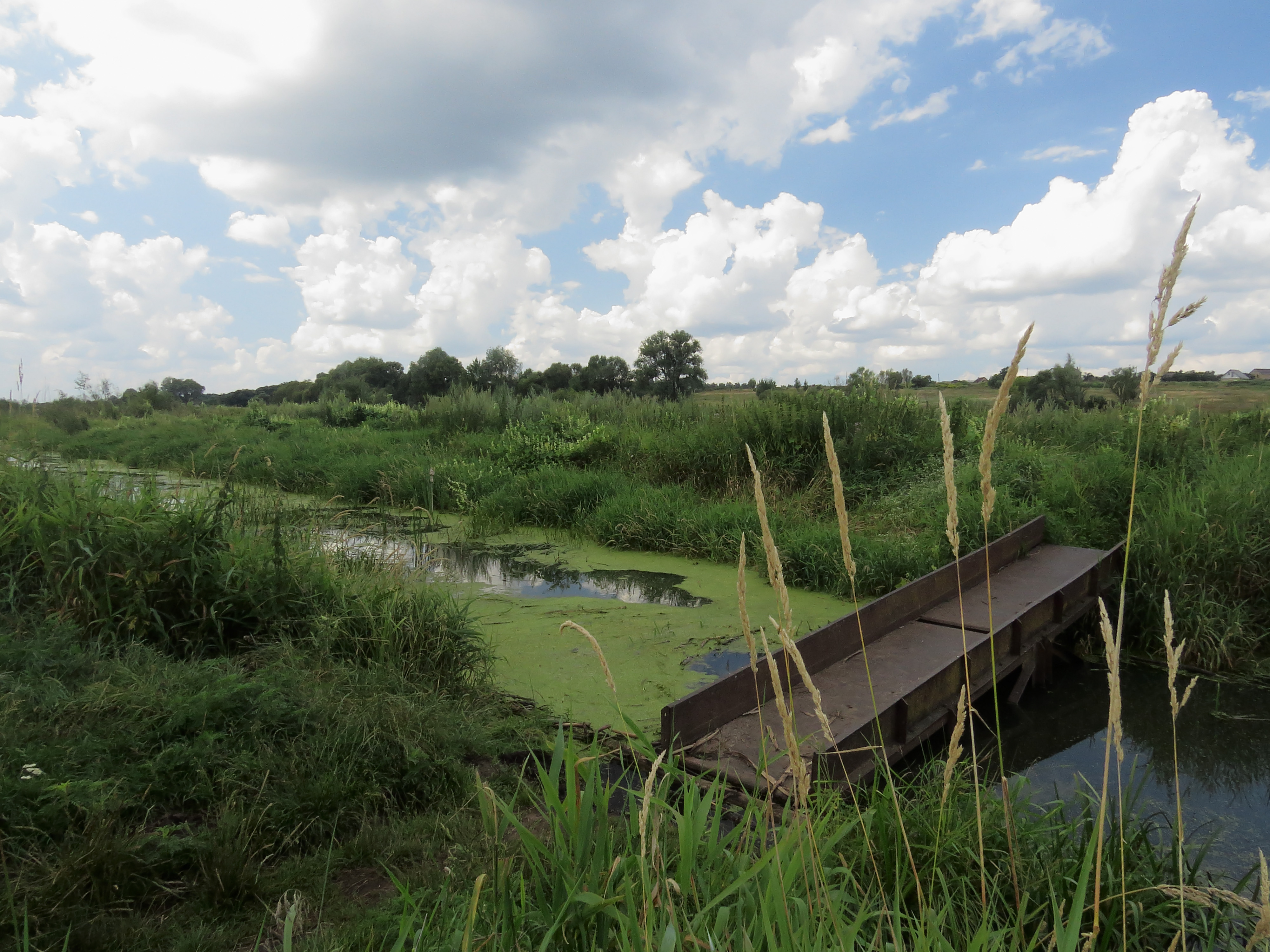 Rokach river near Bucha, Kiev oblast, Ukraine